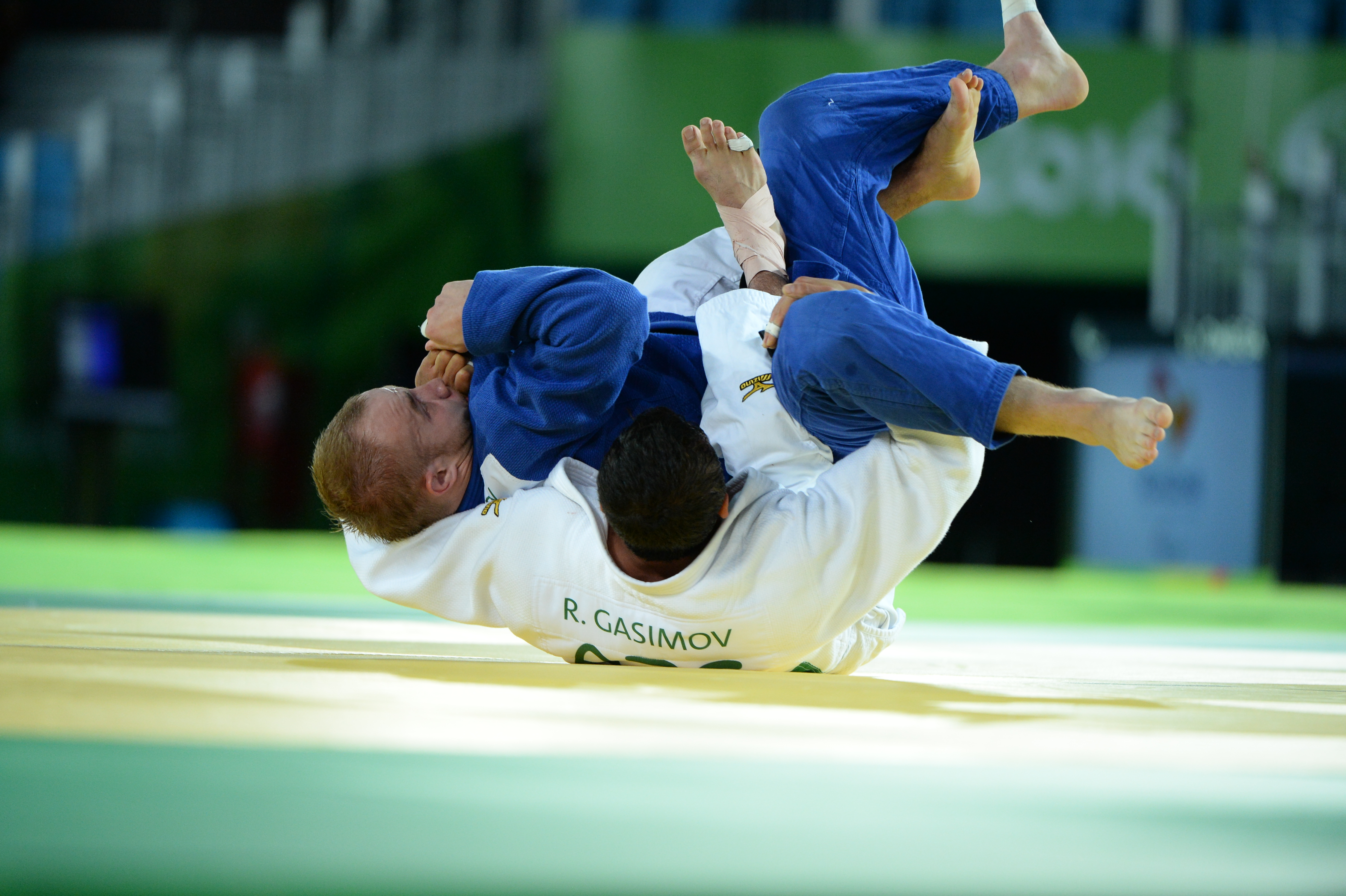 Judo at the 2016 Summer Paralympics – Men's 73 kg, Gasimov vs Solovey